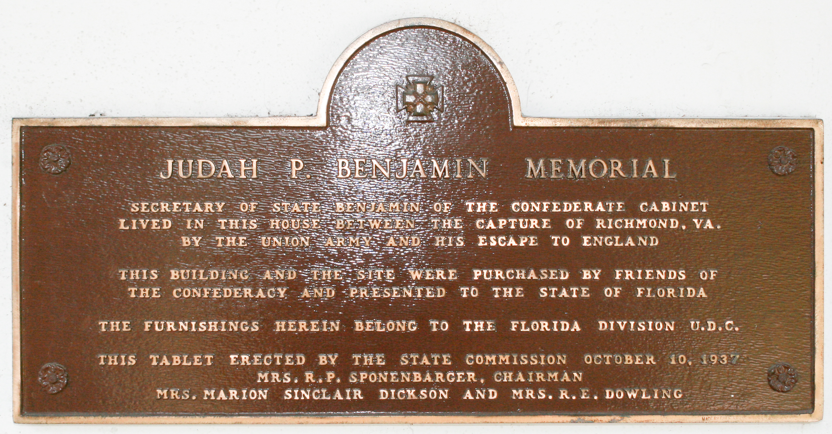 Placard related to Judah P. Benjamin at Gamble Plantation Mansion, Ellenton, FL, United States.